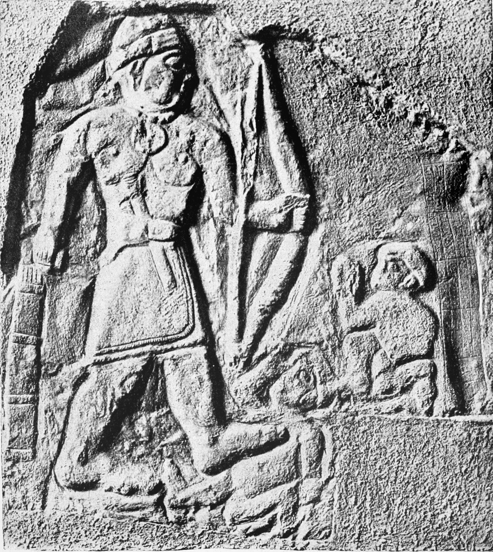 Belula Pass Rock Relief. About 108 kilometers from Sarpol-e Zahab (Lullubi relief of Anubanini).